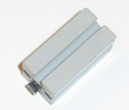 A fischertechnik brick